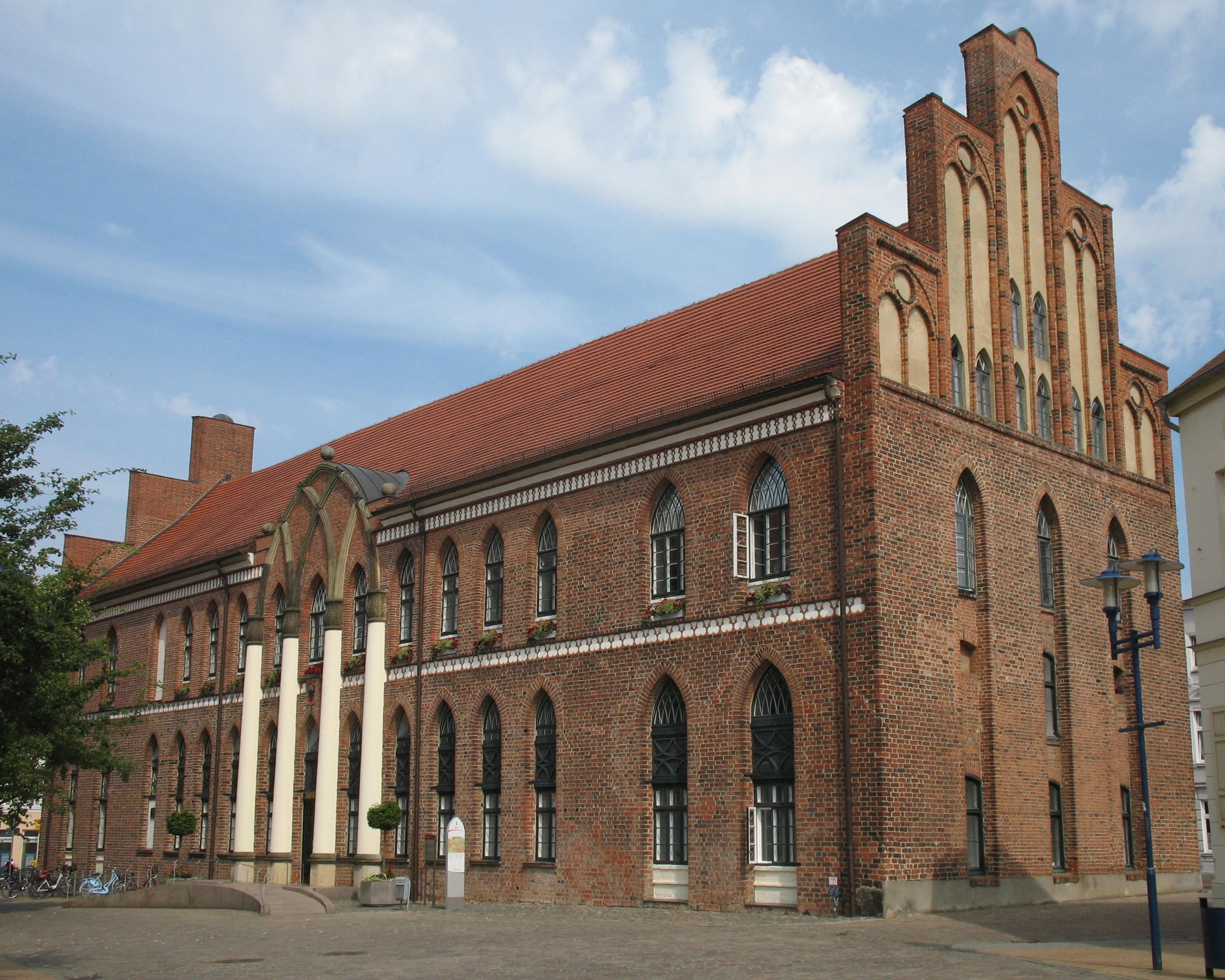 Town hall in Parchim in Mecklenburg-Western Pomerania, Germany